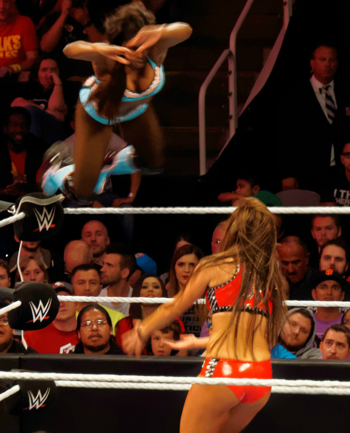 Naomi applying a Diving Crossbody on Nikki Bella in March 2015.